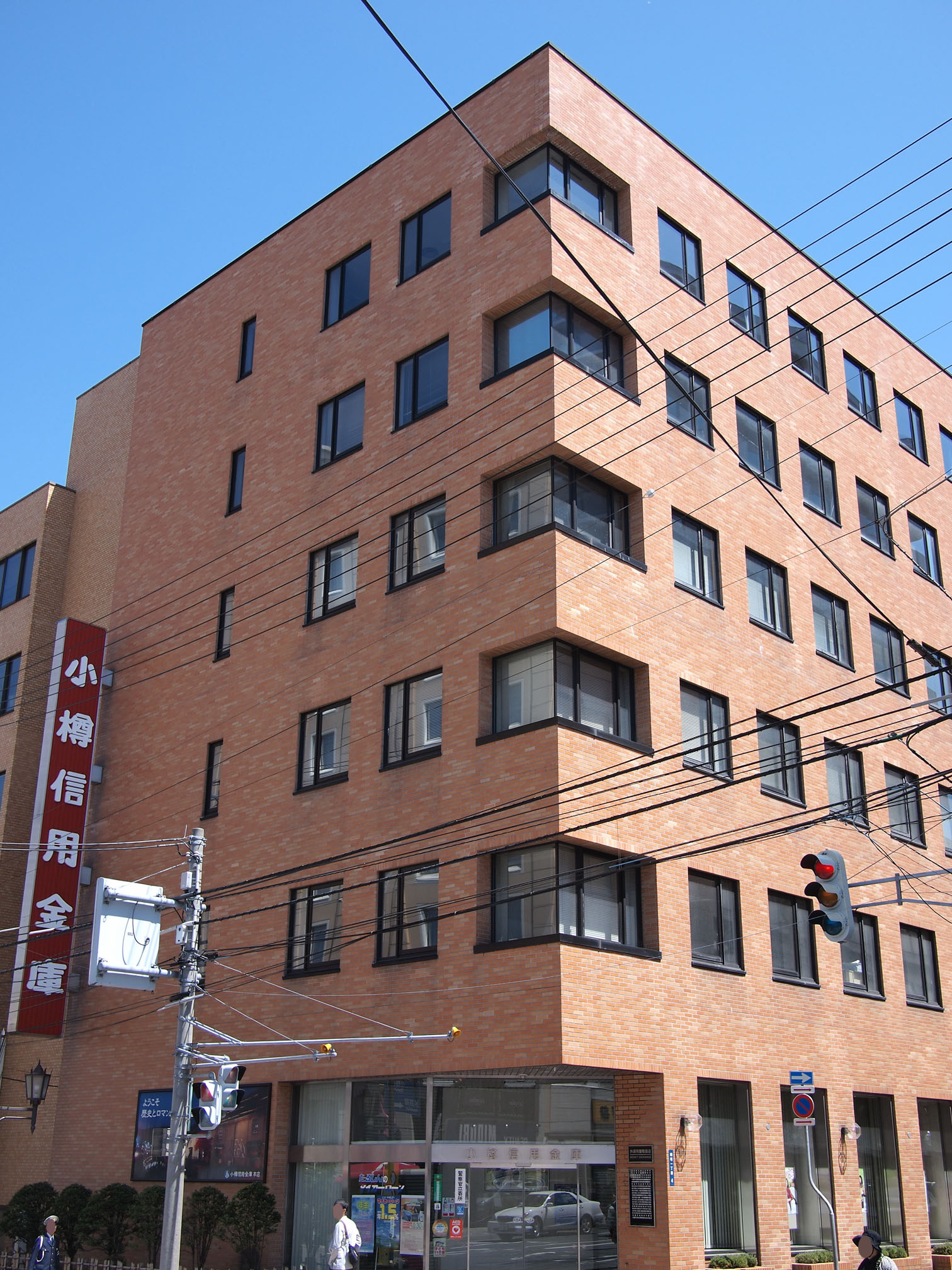 Otaru shinkin bank, Otaru, Hokkaido, Japan